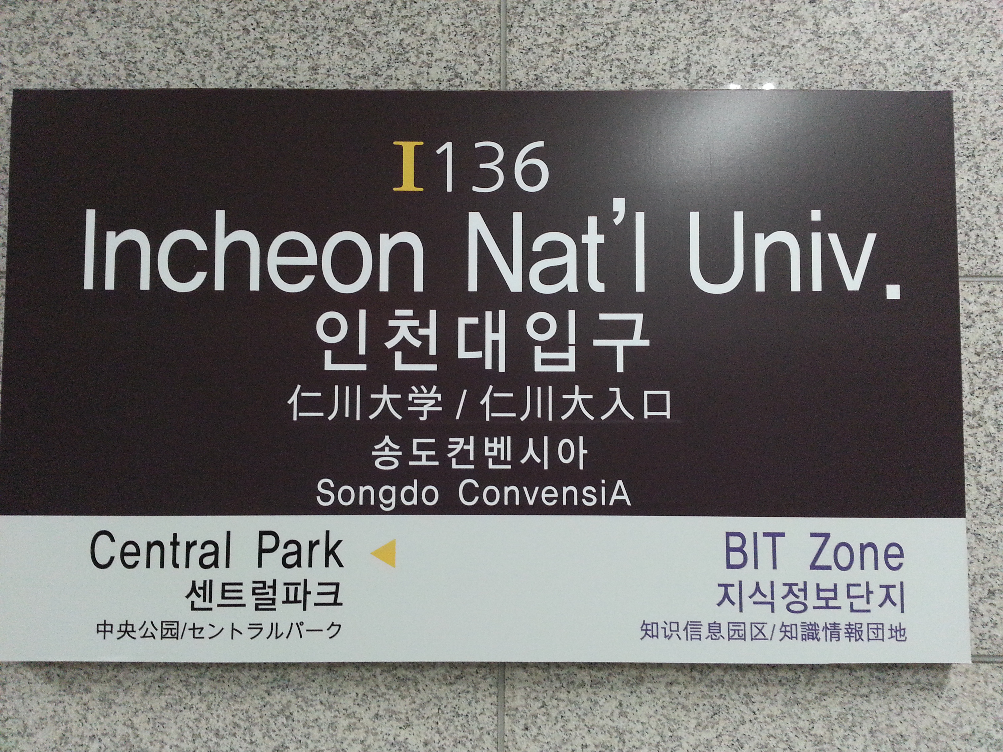 Incheon National Univ. Station